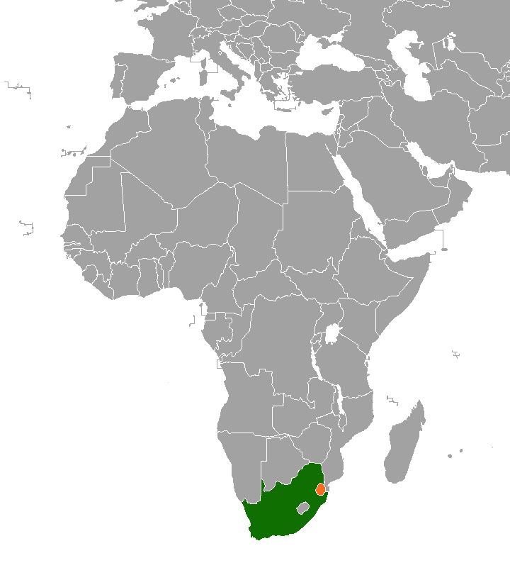 South Africa–Eswatini Locations